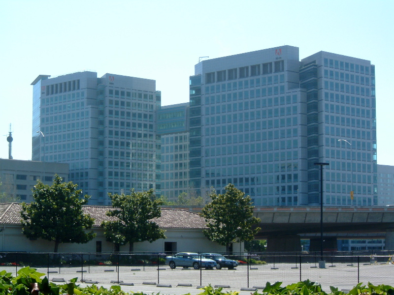 Headquarters of Adobe Systems in Downtown San Jose, California. Adobe Systems Almaden Tower on the left and Adobe Systems West Tower on the right. Photo by John Pozniak, July 5, en:2004.